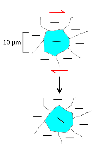 Subgrain rotation recrystallization